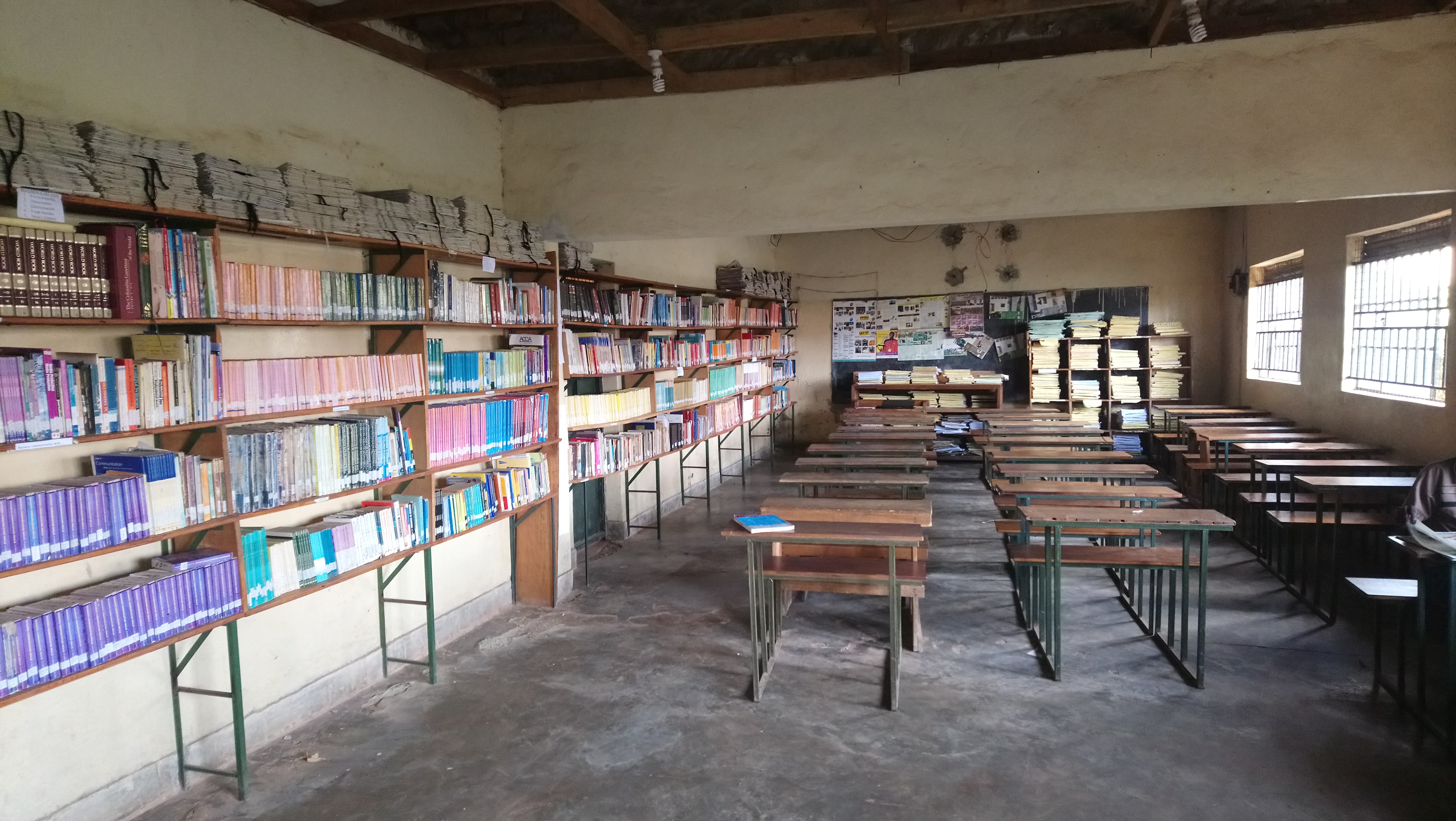 College Library